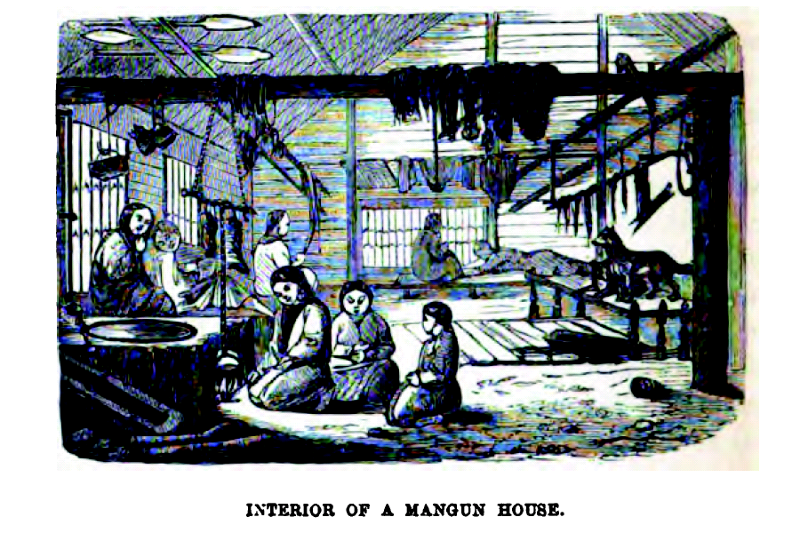 "Interior of a Mangun House" ("Mangun" is an old name for the Ulch people of the lower Amur), ca. 1854-1860)